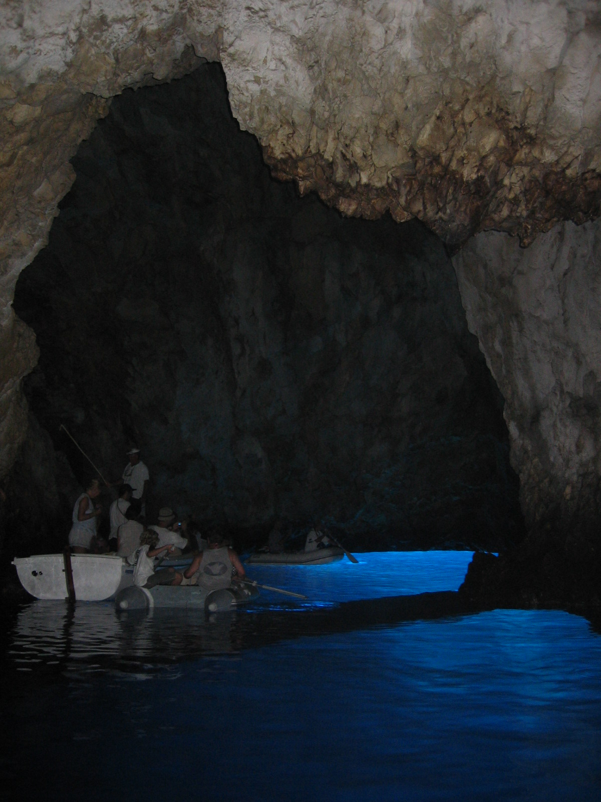 lue Grotto on Biševo Island, Croatia